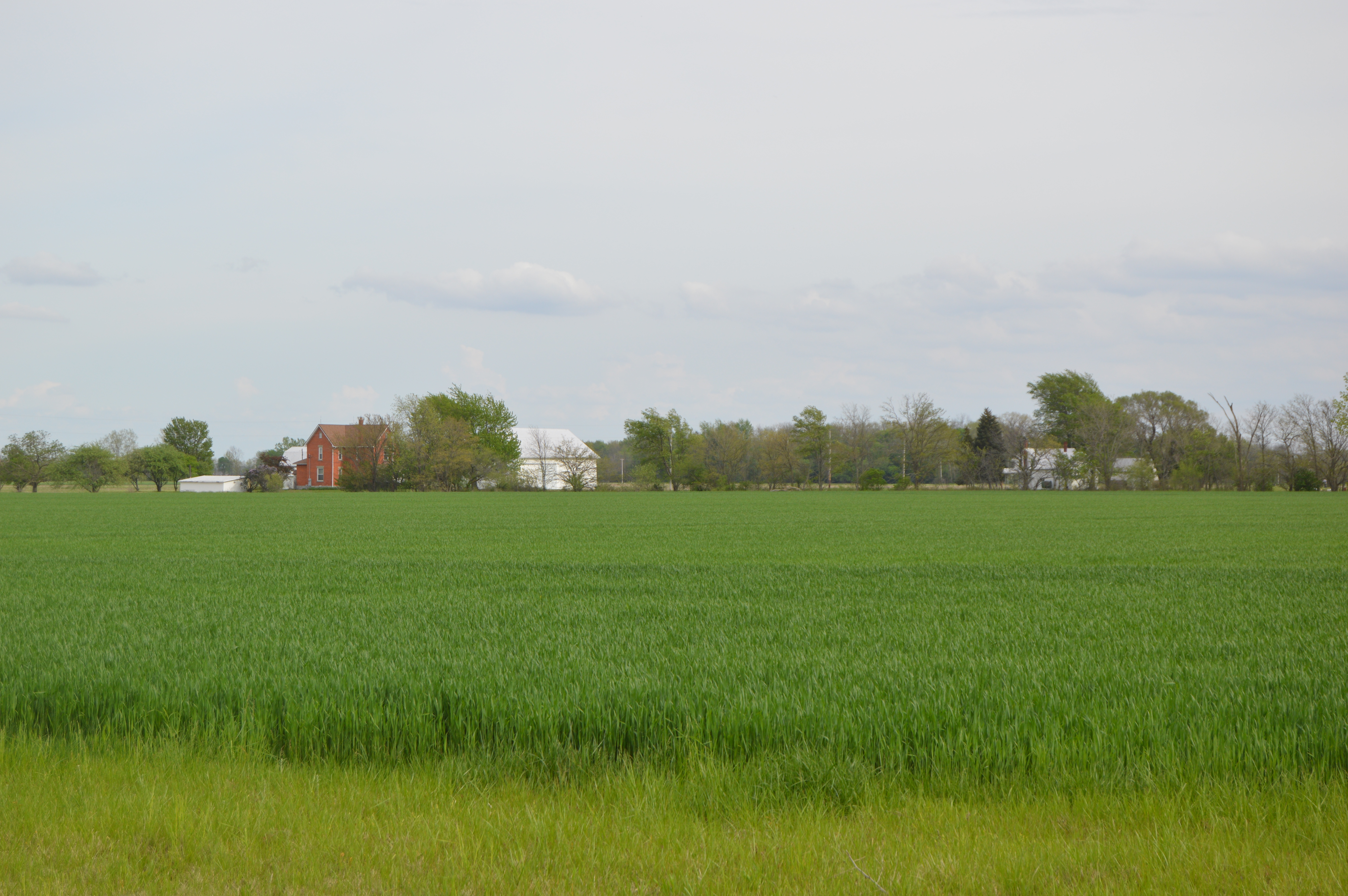 Wheat fields on the southern side of State Route 12 just west of County Road 5, just south of Amsden, in Jackson Township, Seneca County, Ohio, United States.